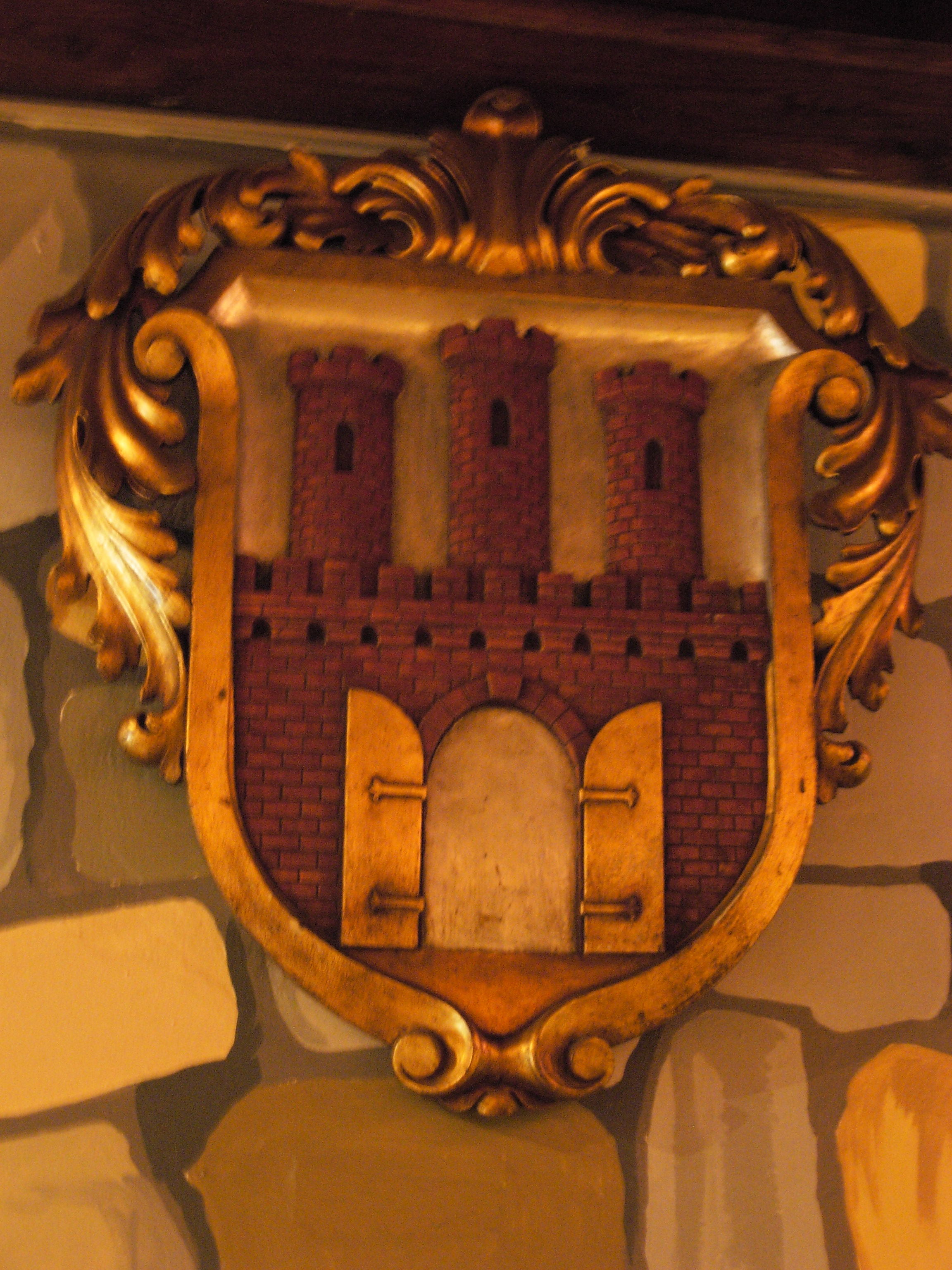 Będzin coat of arms, 17th century, slightly different from the modern coat of arms. Read more at Będzin coat of arms. Items from Muzeum Zagłębia, in Castle in Będzin, Poland.